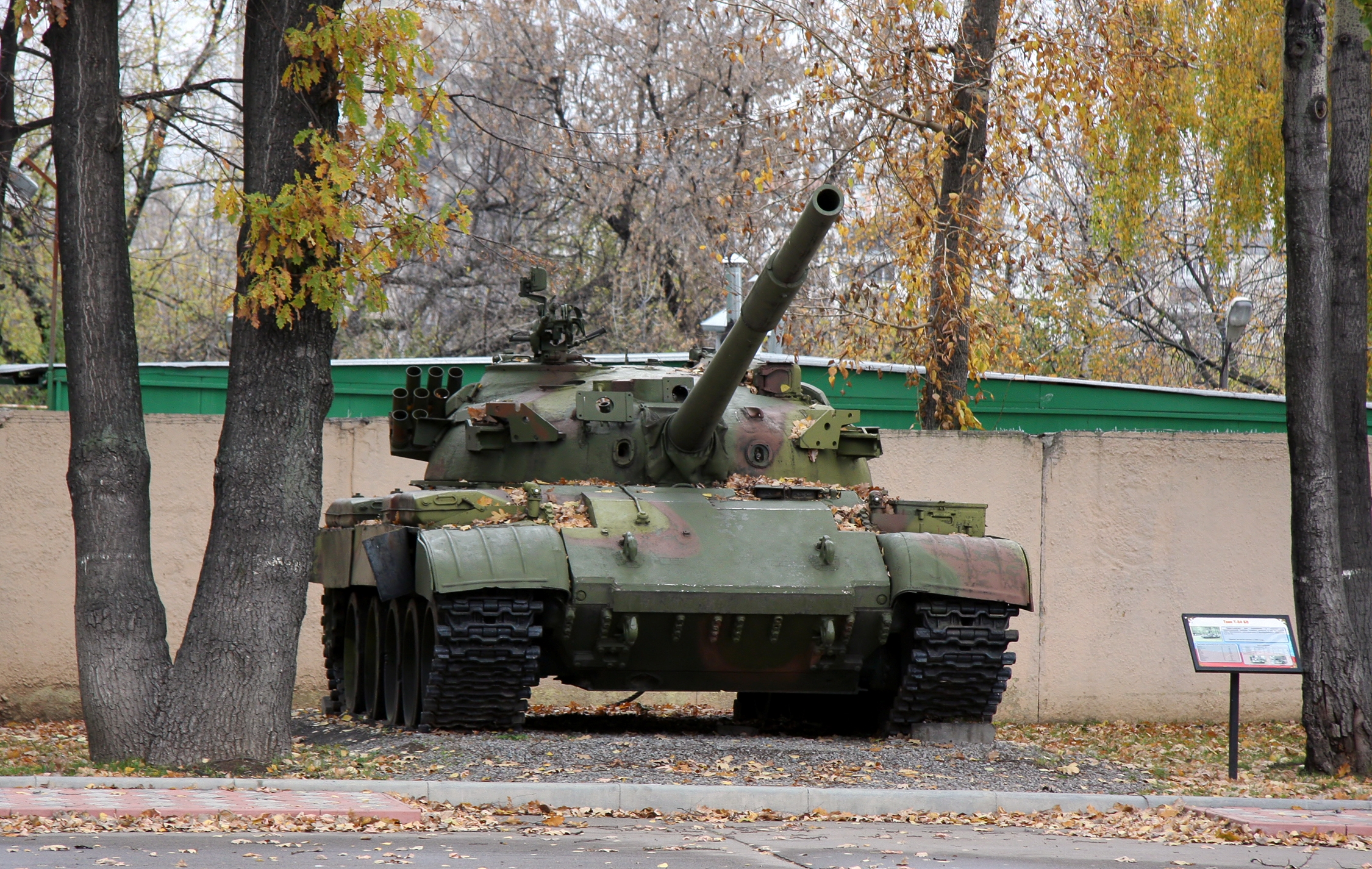 T-62D at the Moscow Suvorov Military School in Babushkinsky.